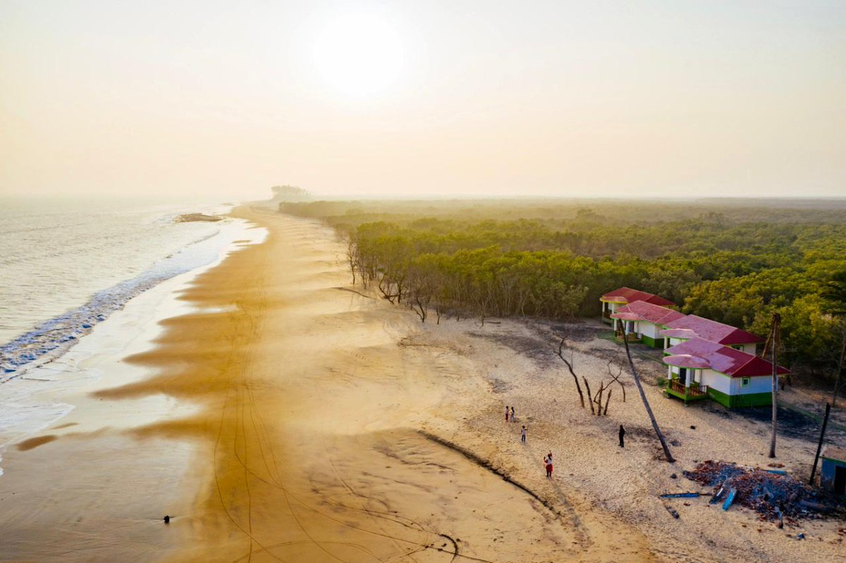 Tweet Text: Odisha is home to many untouched beaches along the panoramic Bay of Bengal, including this idyllic #Ecotourism gateway nestled between the lush greenery & turquoise water. Can you name the beach? Hint: It is not Gopalpur, Puri or Konark. Guess the beach by 6 PM. KnowYourOdisha